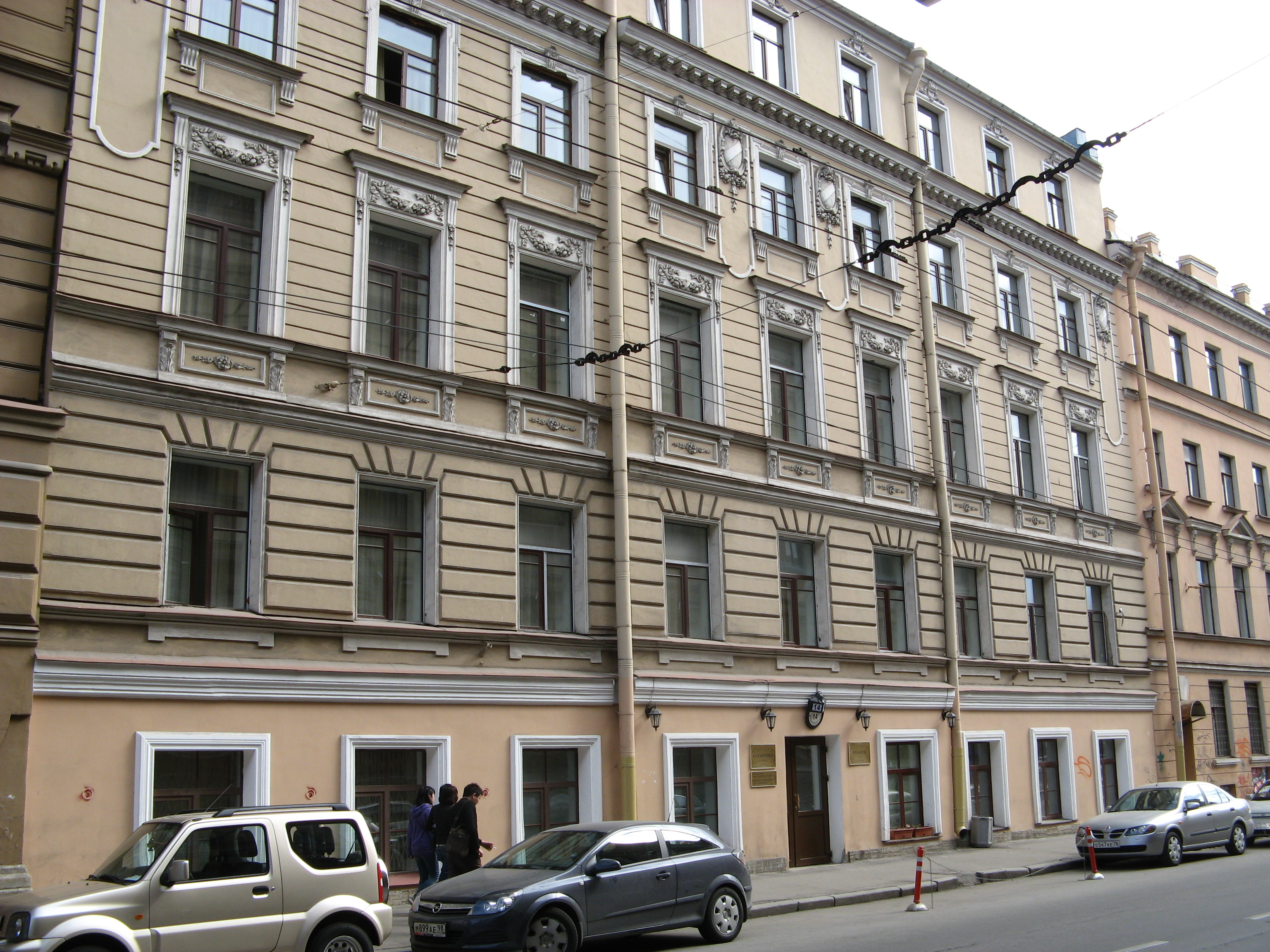 Kazanskaj street, 14 (Saint-Petersburg)